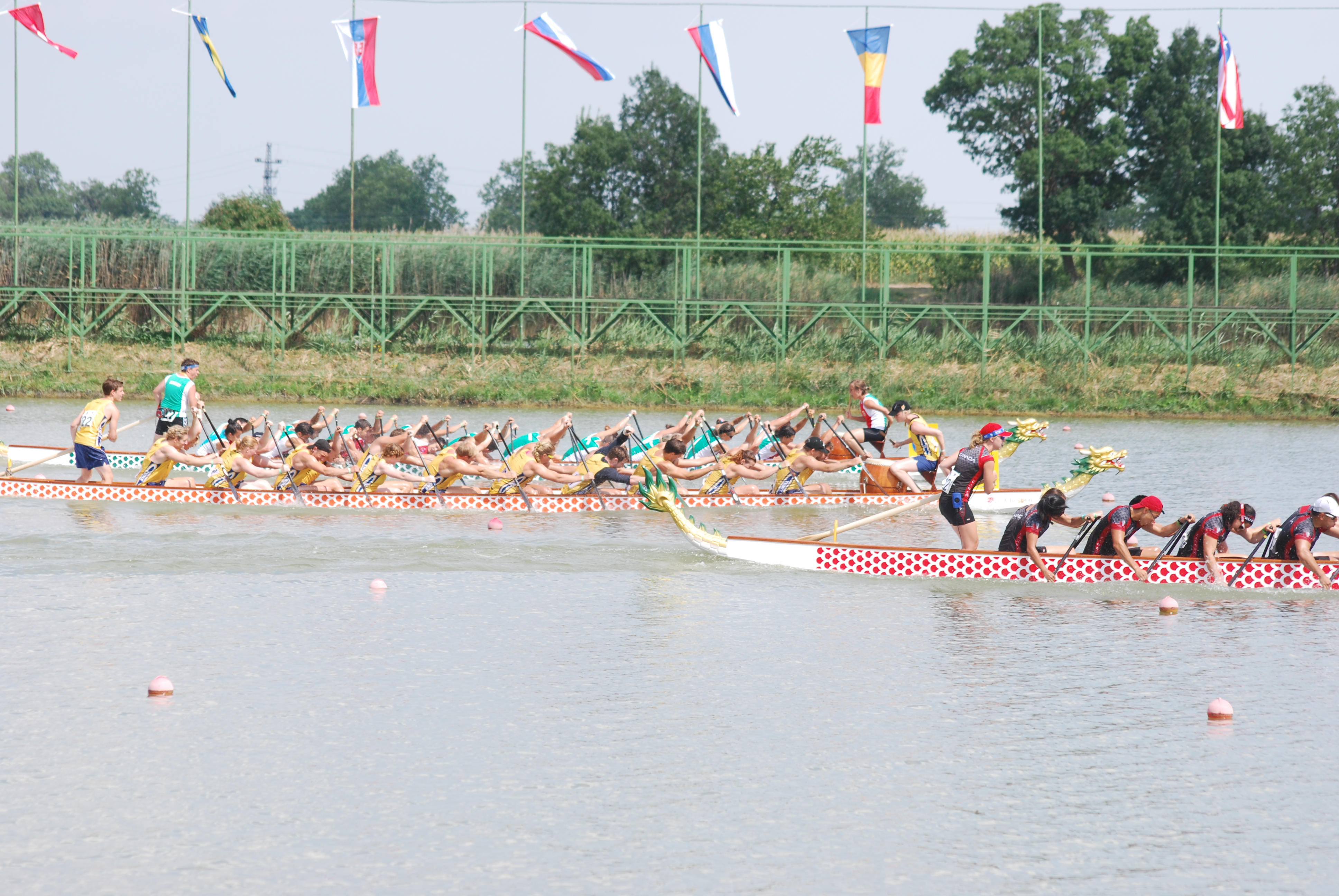 (IDBF World Dragon Boat Racing Championships 2013 in Szeged, Hungary. Standard boat U24 mixed racing.)